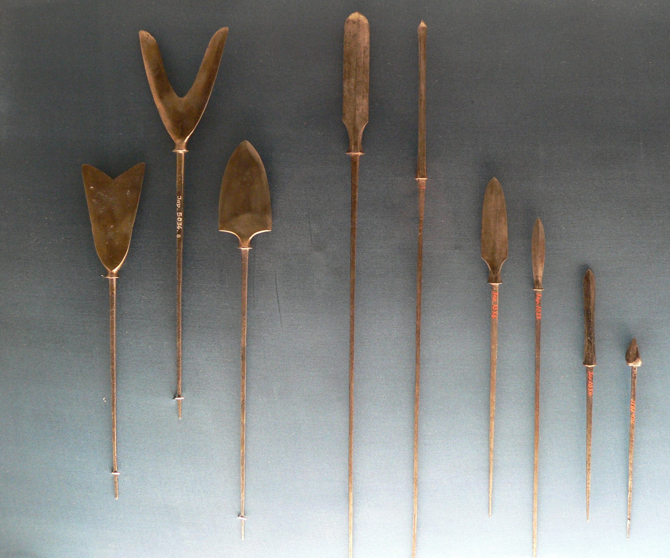 Japanese arrow heads (yajiri / yanone)